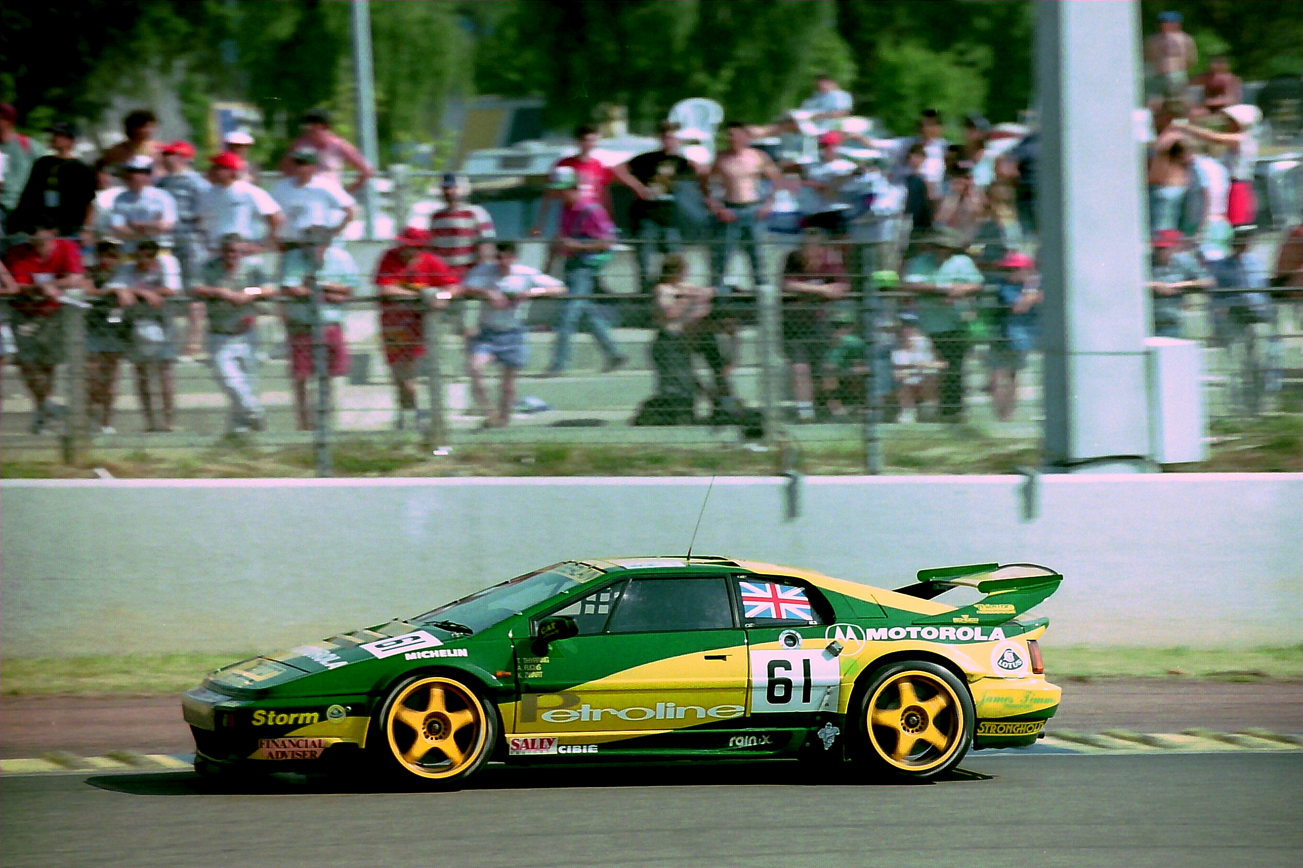 Lotus Esprit Sport 300 - Thorkild Thyrring, Andreas Fuchs & Klaas Zwart at the 1994 Le Mans